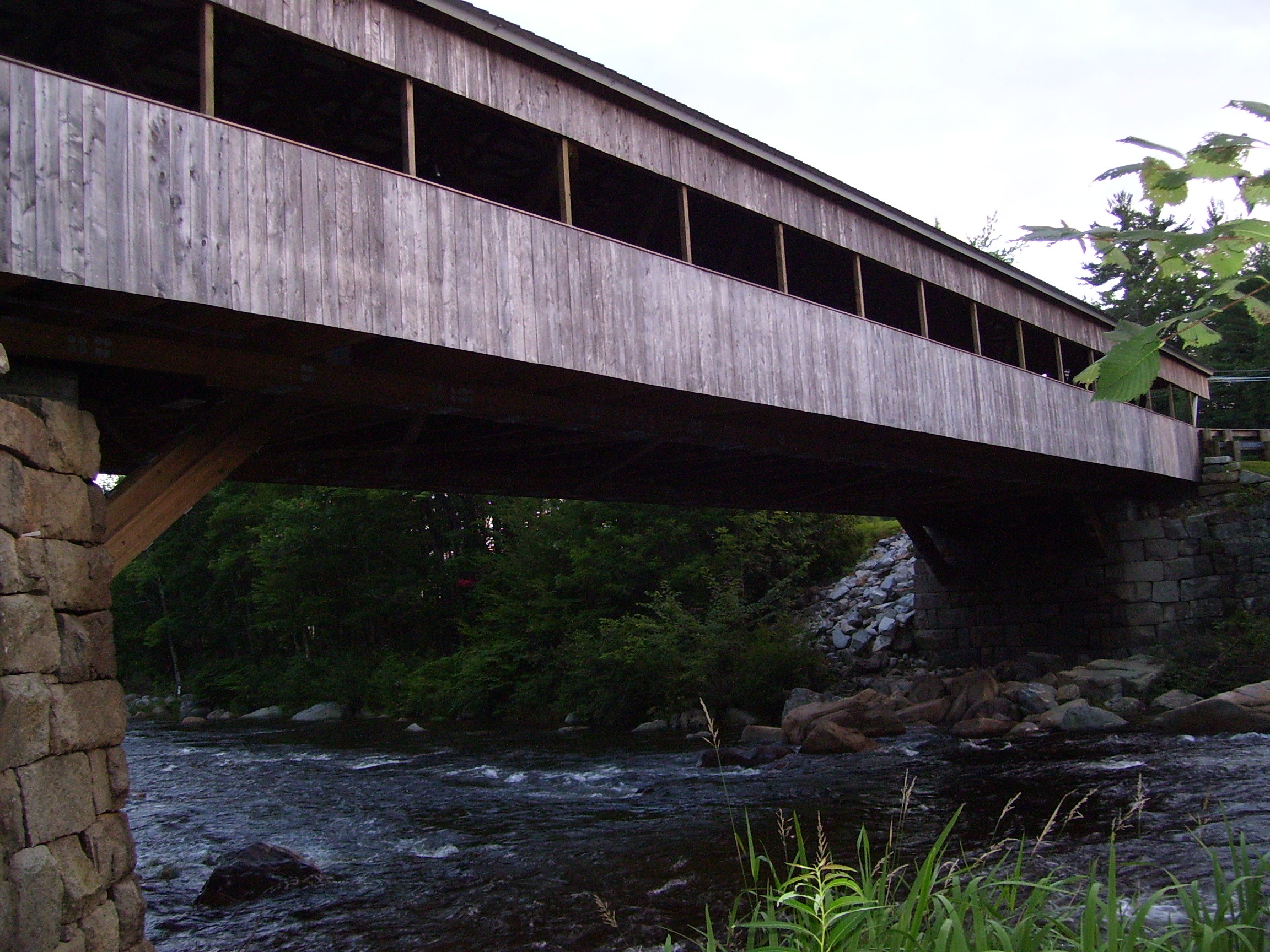 My 2008 photo of the Jackson New Hampshire covered bridge.